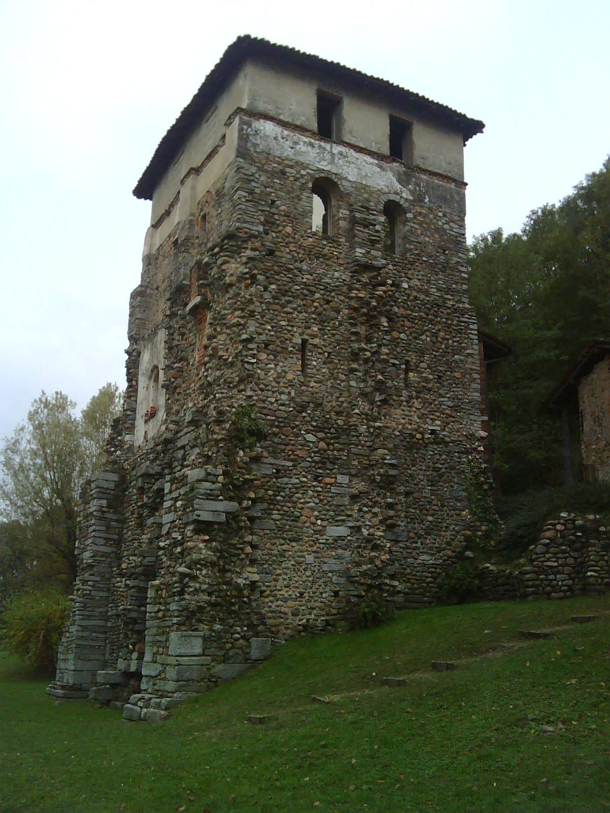 Tower of Torba, Gornate olona (Va) (Italy)